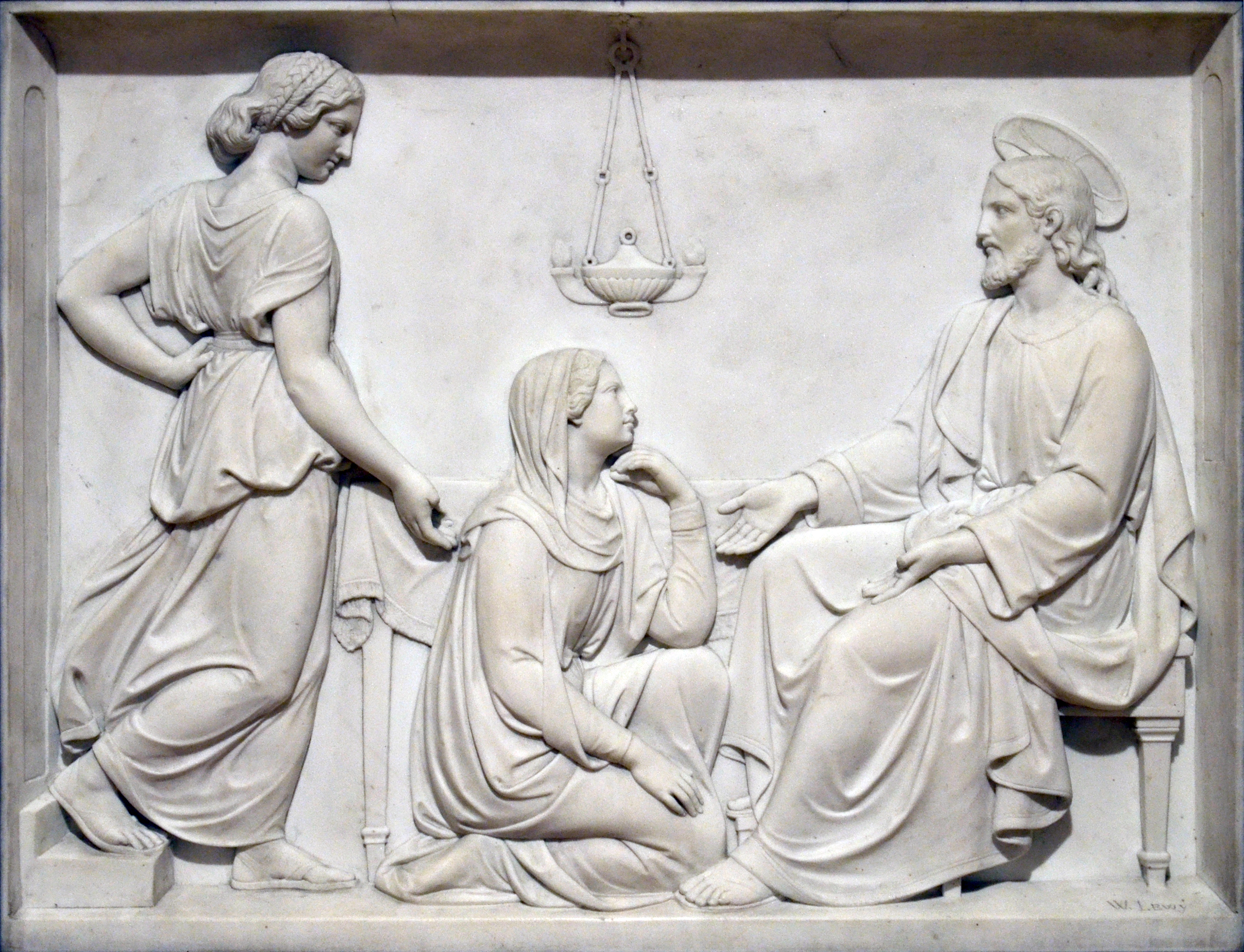 Václav Levý, Kristus visiting Mary and Martha 1858, (marmor) National Gallery in Prague